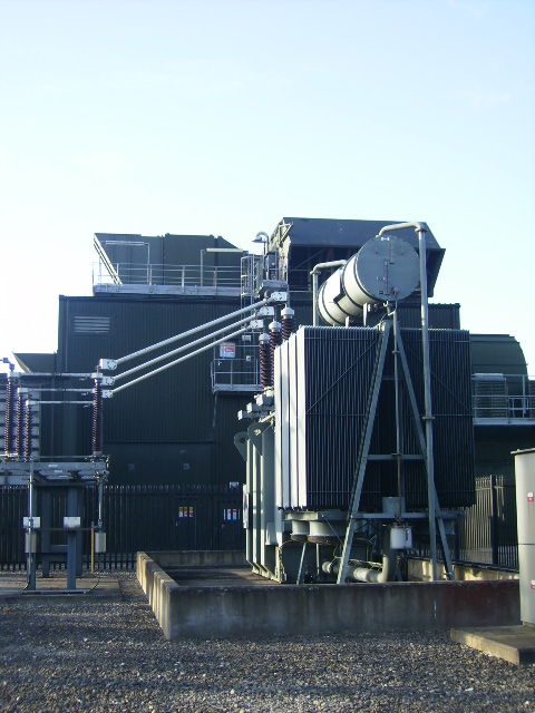 Transformer and electricity power generating gear at Knapton Power Station. The American owned Knapton Power Station is gas turbine powered solely from local land gas and produces 42 Megawatts of power. Scottish Power sold the plant to RGS Energy Ltd, a subsidary of US Energy Systems for £15.5 million in August 2006. The power station opened in 1995.